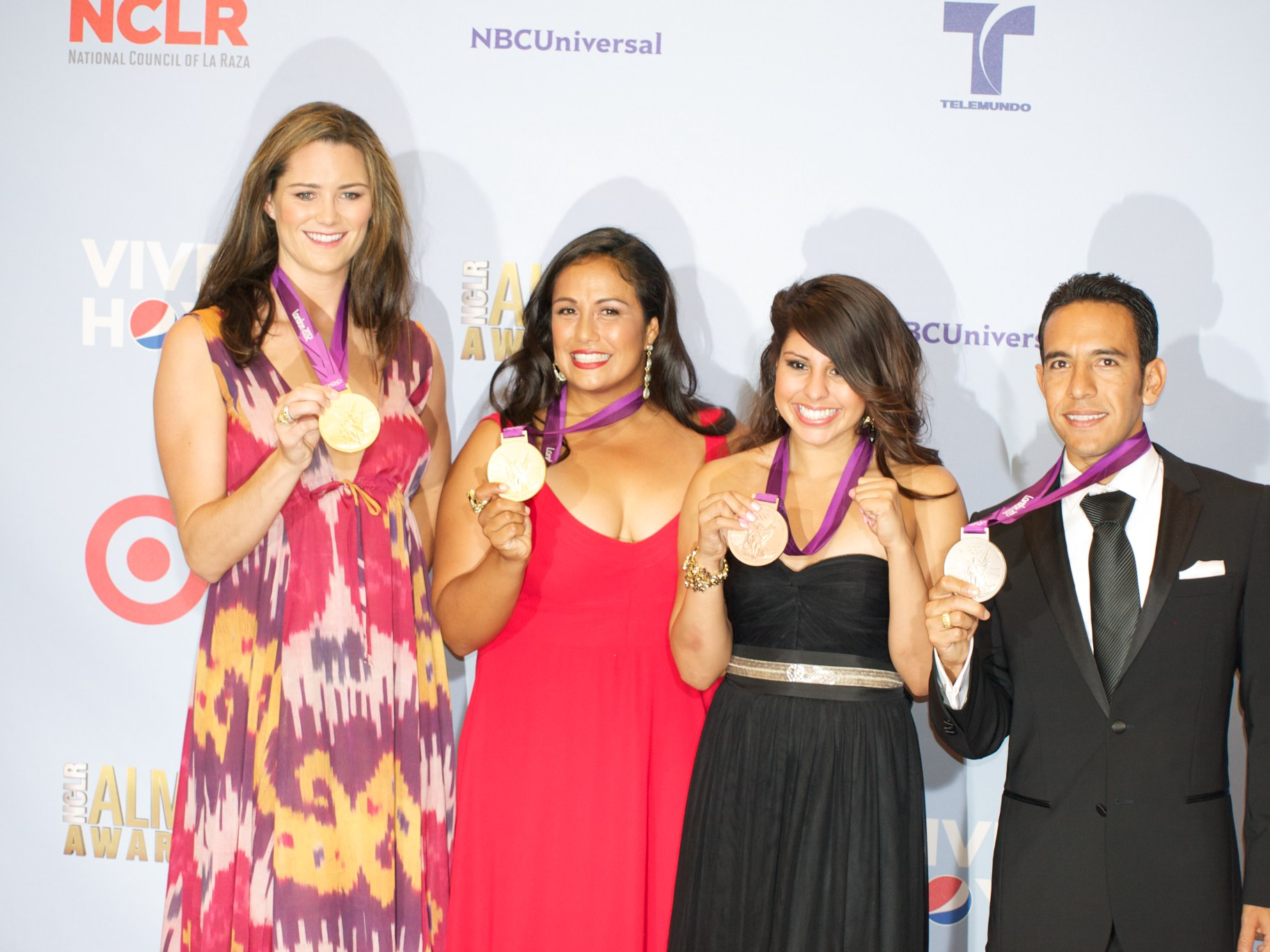 Four of the 2012 Olympic medalists at the ALMA Awards. From left: Jessica Steffens, Brenda Villa, Marlen Esparza and Leonel Manzano